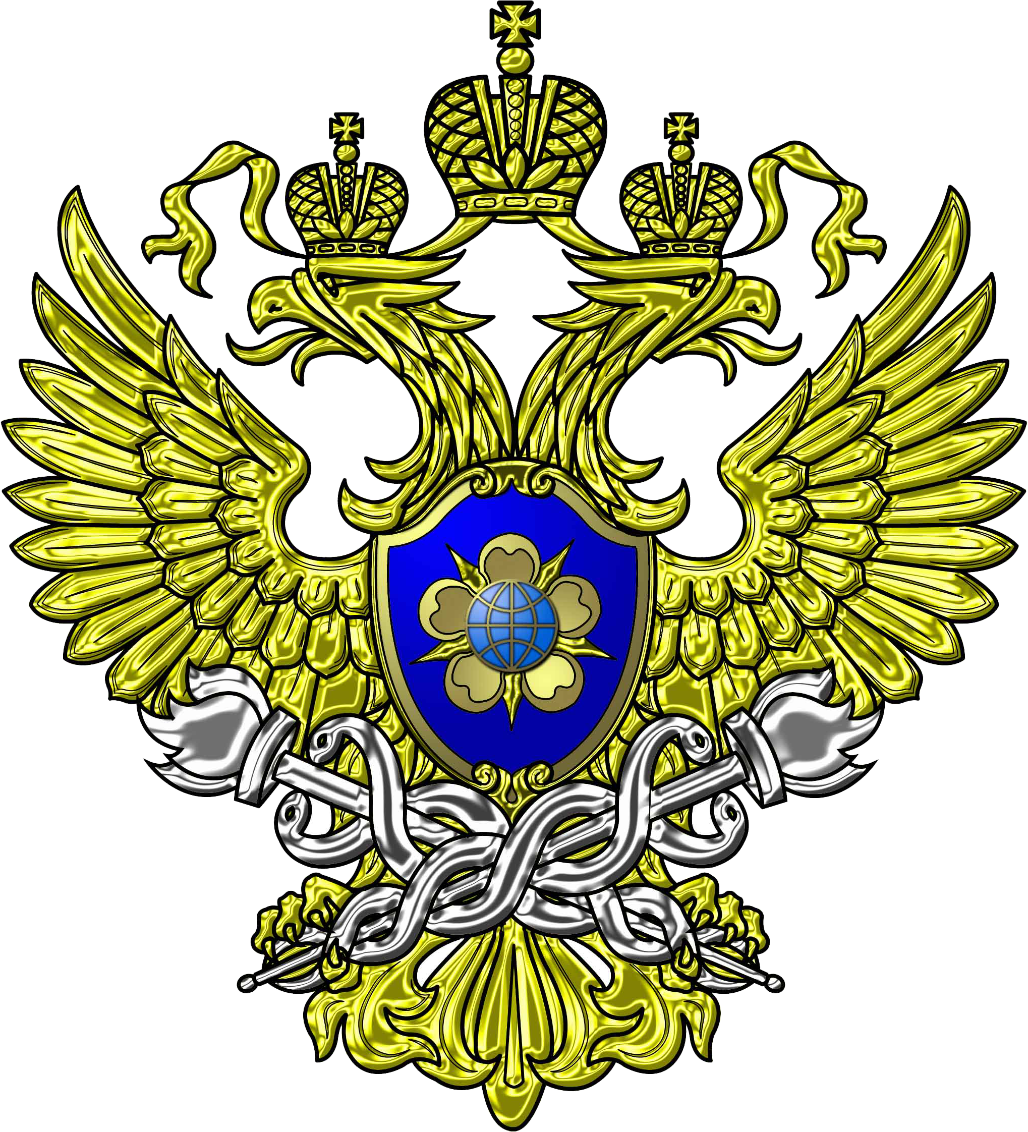 Heraldic symbol-emblem of the Federal Service for Financial Monitoring (approved by Government Resolution dated January 25, 2008 № 27)